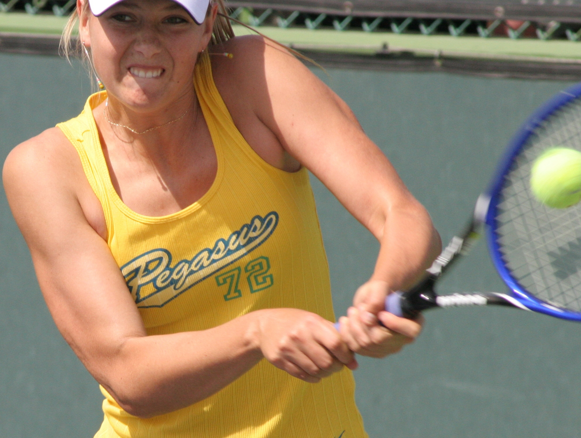 Maria Sharapova practicing in Indian Wells, California, USA, in 2005, on a side court.